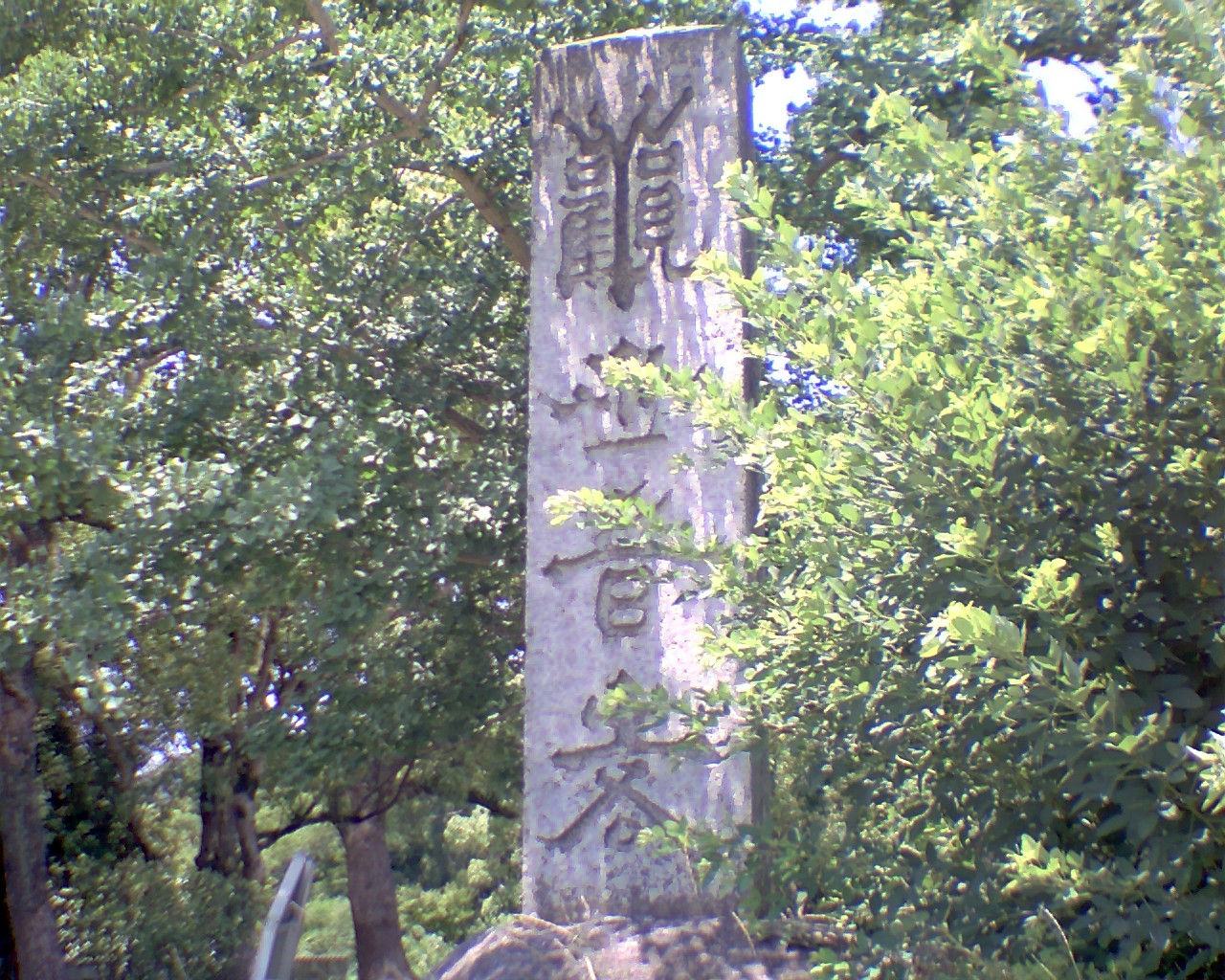 This photograph is the name stele on a temple named 'Kanzeonji (Kanzeon-ji